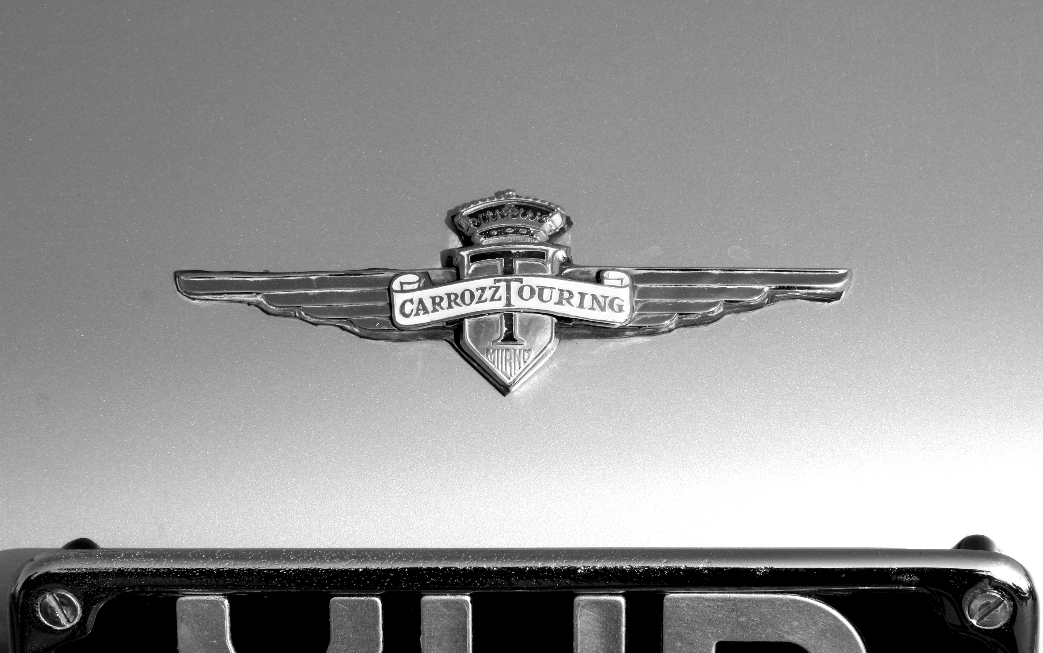 Lancia Flaminia Touring 3C motif